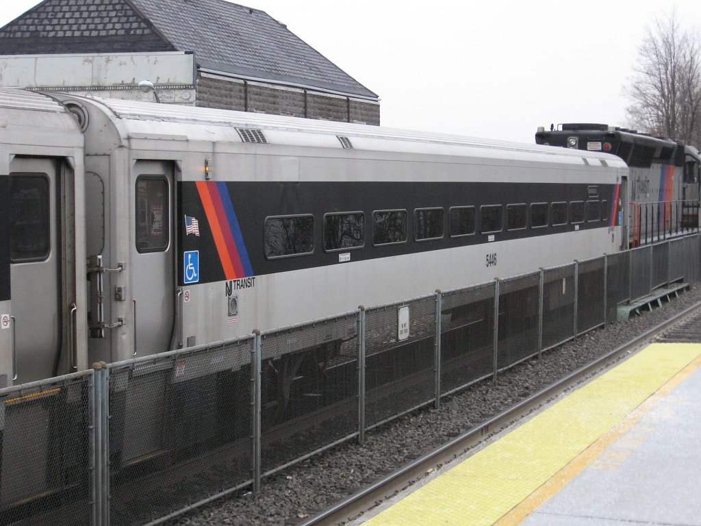 NJ Transit #5446 is on Train 5705 in Plainfield.